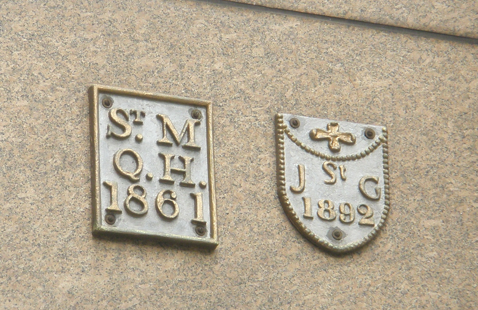 Parish boundary mark in Little Trinity Lane. The mark at left relates to the former parish of St Michael Queenhithe.